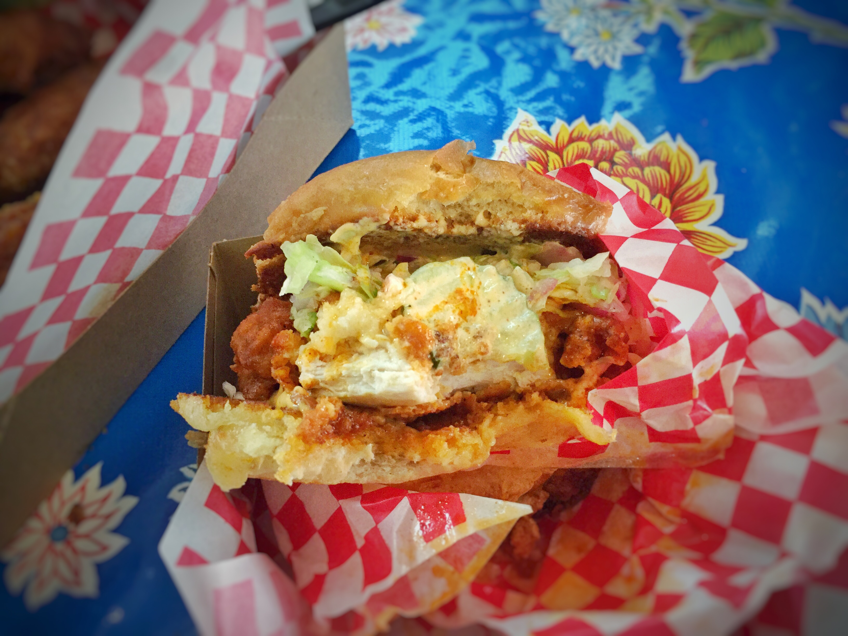 A fried chicken sandwich composed of boneless breast, slaw, comeback sauce and pickles on a butter bun.